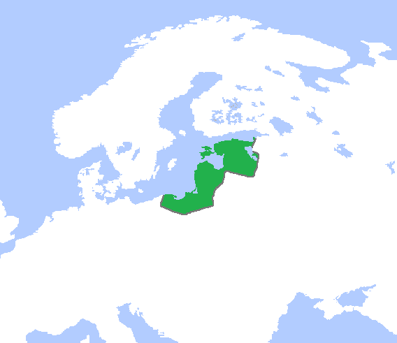 Locator map of the Monastic state of the Teutonic Knights, c. 1400. (Partially based on Atlas of World History (2007) - The World 1300-1400, map)